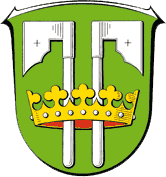 Coat of Arms of Calden